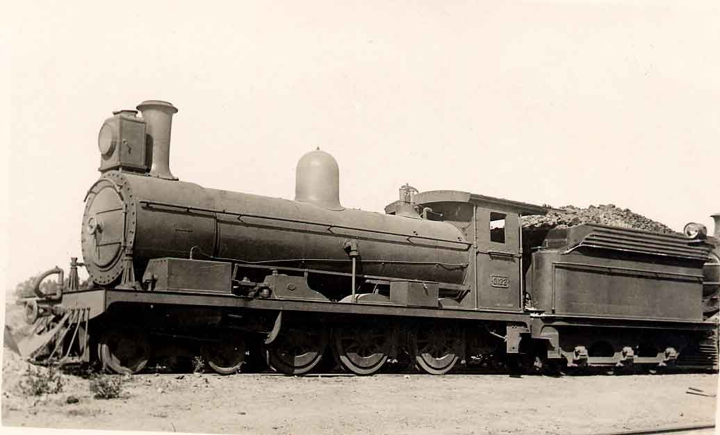 Cape Government Railways 5th Class 4-6-0 no. 122, then SAR no. O122